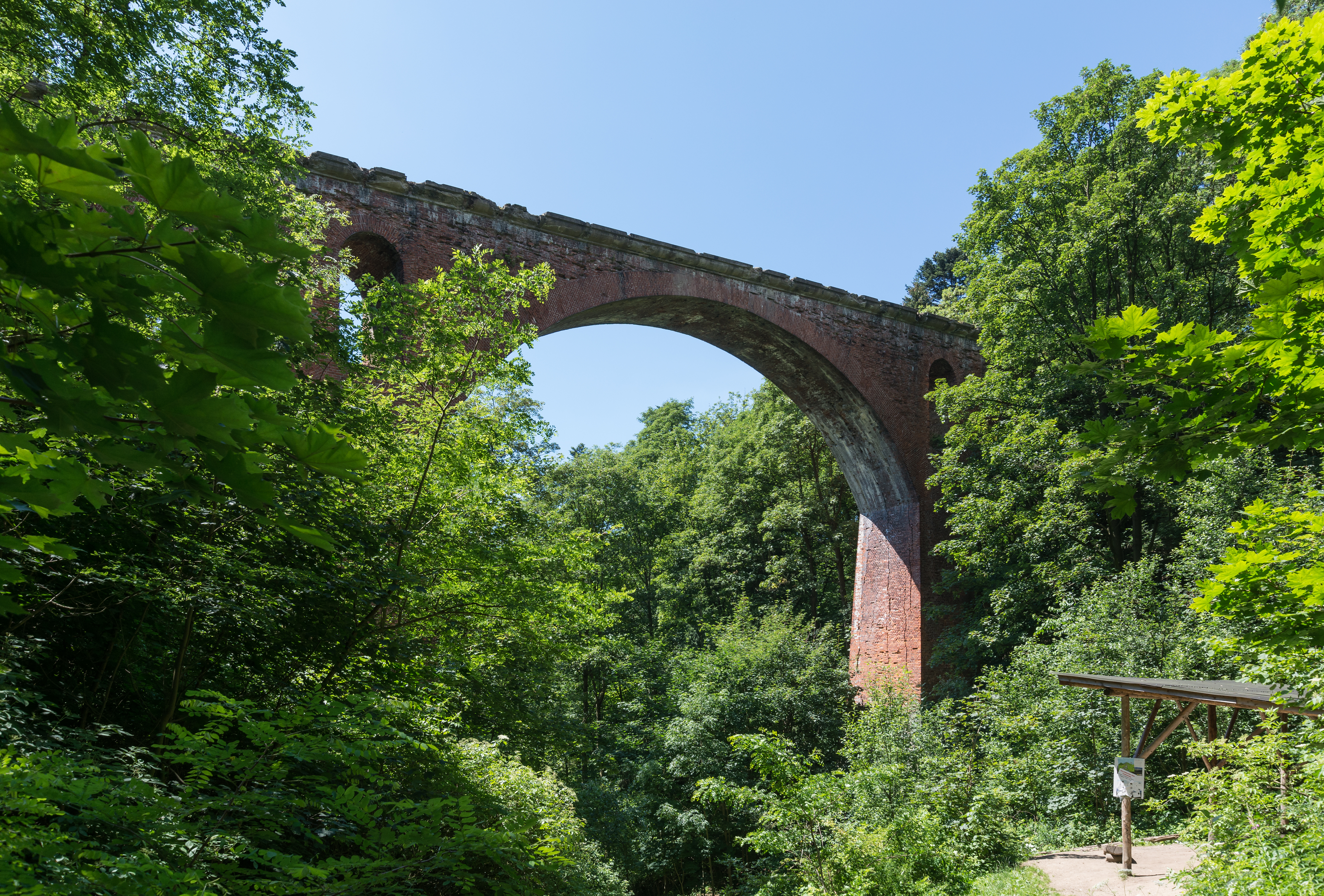 Railway viaduct in Srebrna Góra, Poland